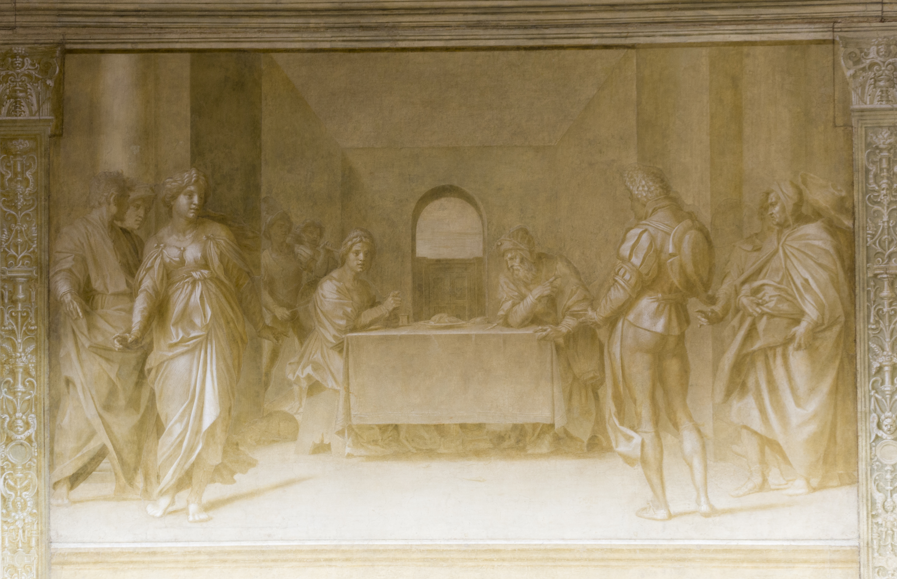 "The Dance of Salome" by Andrea del Sarto